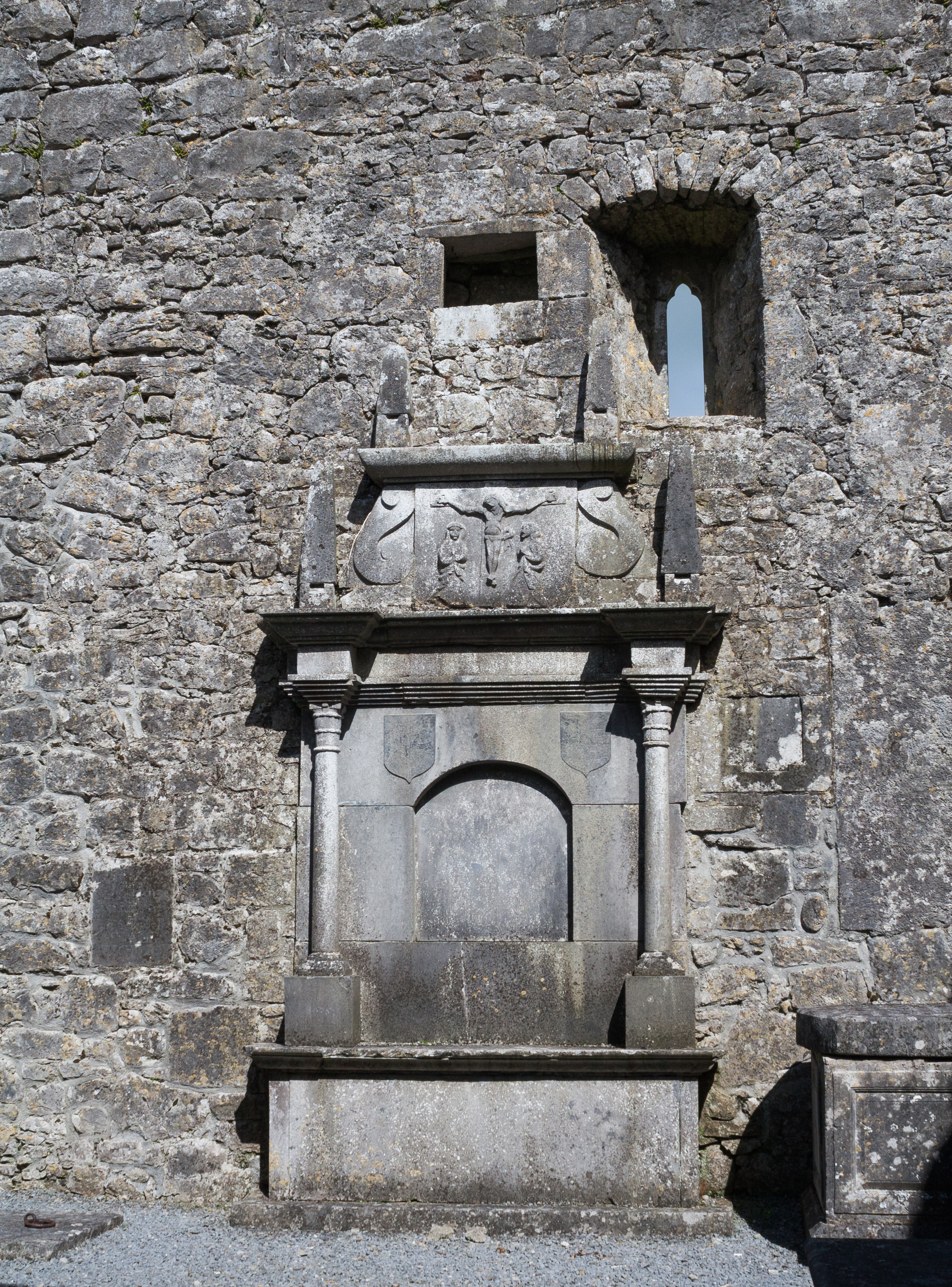 16th-century tomb of Sir Dermot O'Shaughnessy at the north wall of the north transept.